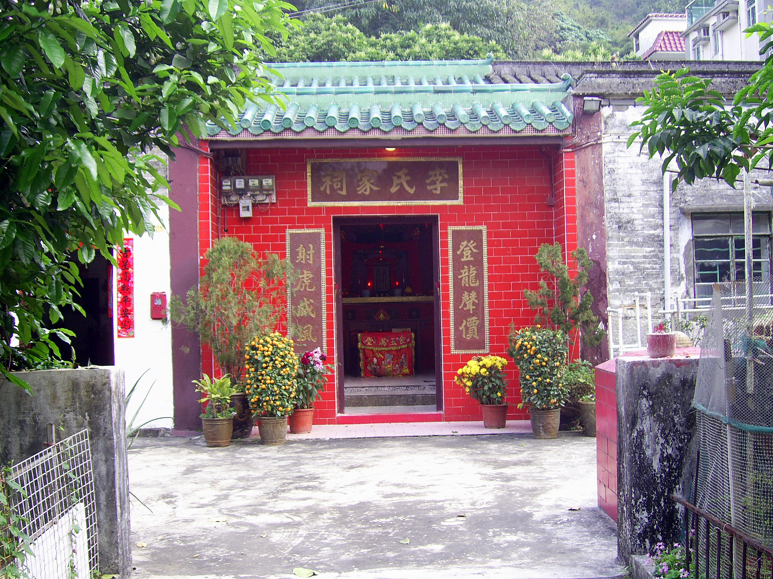 中文（香港）: 牛皮沙村李氏家祠 Li Ancestral Hall in Ngau Pei Sha Village, Sha Tin District